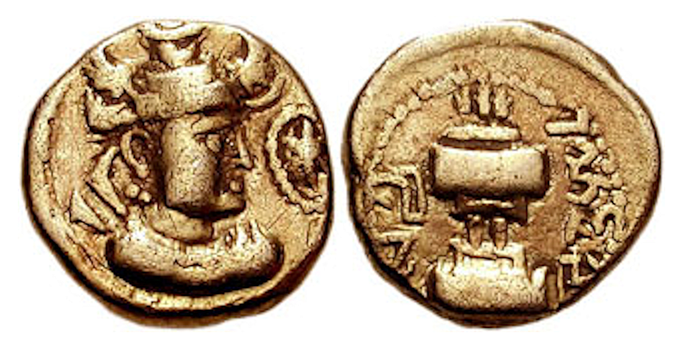 Rana Datasatya Circa mid 6th century CE INDIA Sindh